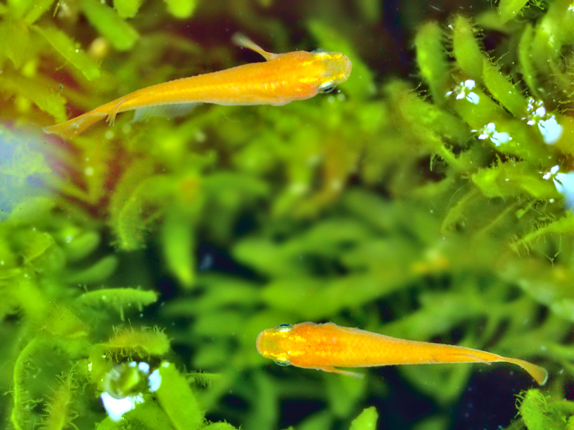 Himedaka, Japanese rice fish (Oryzias latipes), also known as Japanese killifish. Selective breeding.